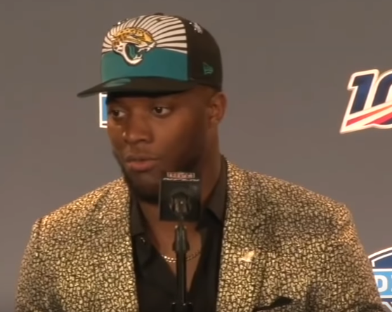 Josh Allen in 2019